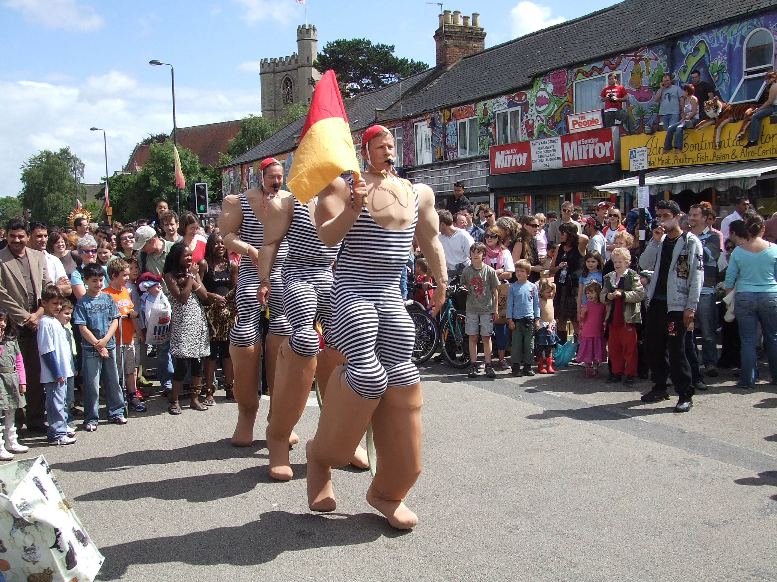 Their impressive muscular development gives them a spring in their step.